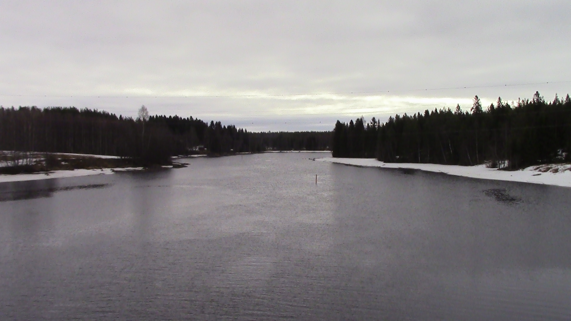 Tenetti river seen from the bridge of regional road 899 in Sotkamo. The river connects Pirttijärvi lake and Nuasjärvi lake to each other.